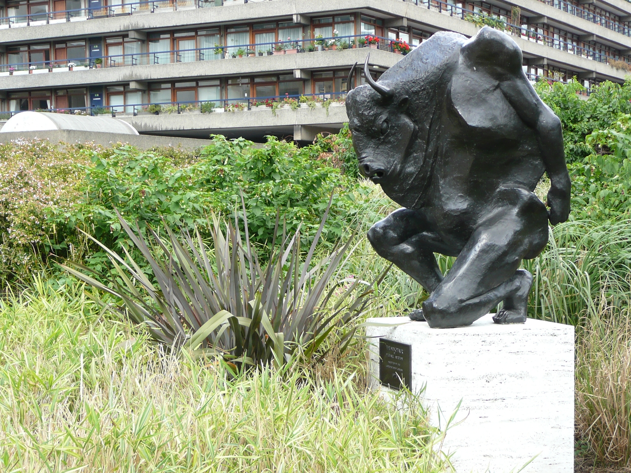 Minotaur, Barbican in London/UK